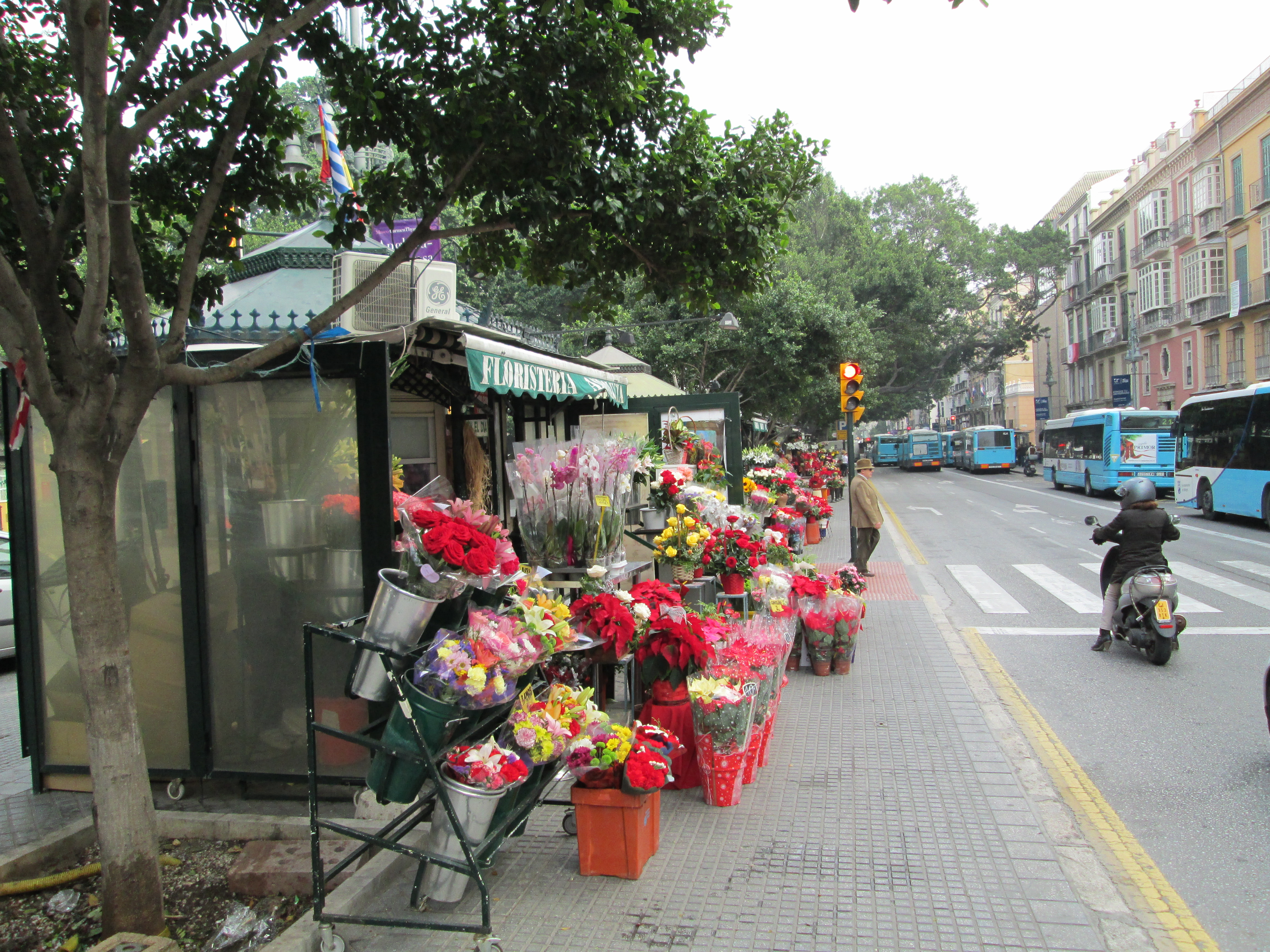 Flowers Kiosks in Alameda Principal.